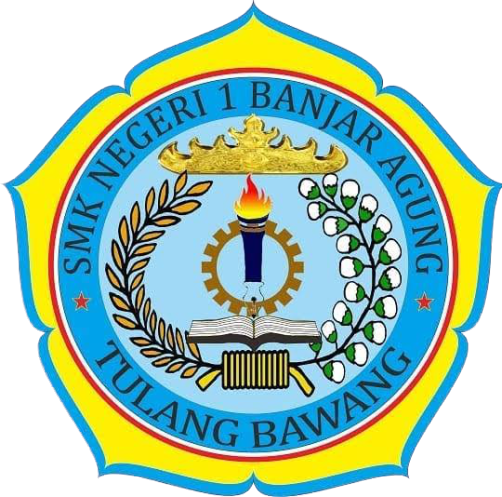 Logos of SMKN 1 Banjar Agung